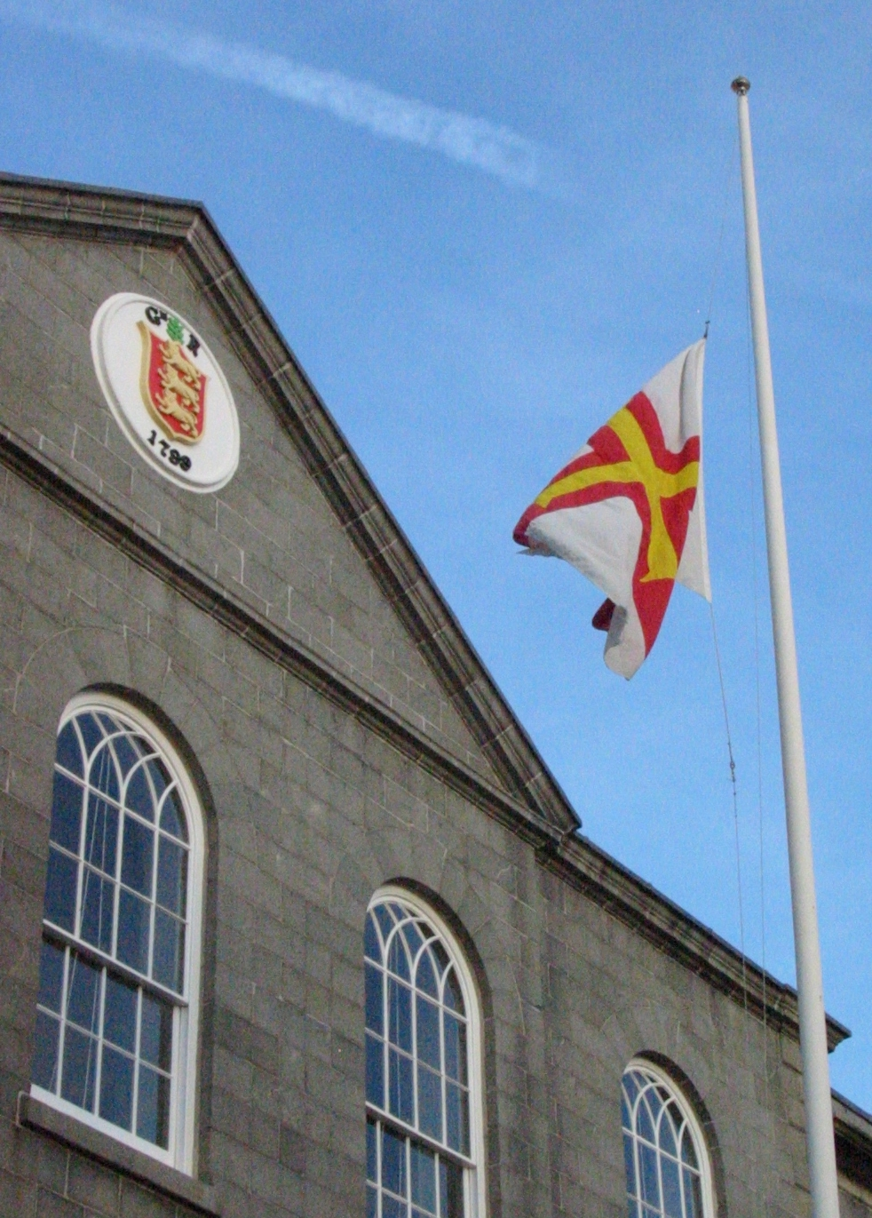 Saint Peter Port, Guernsey: La Cohue, seat of the Guernsey parliament